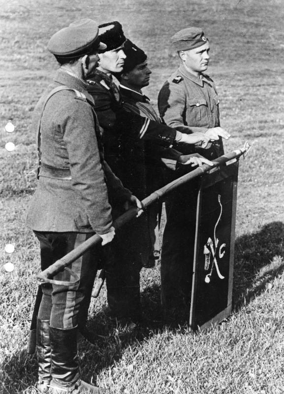 Placing their hands upon their battle standard, Russian Cossack troops take an oath of allegiance to Adolf Hitler